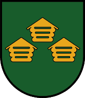 Source: "Fahnen-Gärtner GmbH, Mittersill" This file depicts a coat of arms. The composition of coats of arms are generally public domain with respect to copyright laws, and may be reproduced freely. This corresponds to the international traditional usage, and is explicitly stated in some national copyright laws. Some compositions, of more recent origin, may be copyrighted. This is not a valid license as such, being a "public domain" statement for the coat of arms definition only. It must be completed with the copyright tag associated to the picture creation. See Commons:Coats of arms for further information. Please note that this applies only to the coat of arms definition (composition / description). The representation of a coat of arms is an artistic creation, subject as such to copyright laws. Restriction of use - Legal notice: Most of the time, the usage of coats of arms is governed by legal restrictions, independent of the status of the depiction shown here. A coat of arms represents its owner. Though it can be freely represented, it cannot be appropriated, or used in such a way as to create a confusion with or a prejudice to its owner. Usage on Commons: Please provide licence information for the coat of arm representation, information for the author of the picture, and the source if not self-made work. This image is in the public domain according to Austrian copyright law because it is part of a law, ordinance or official decree issued by an Austrian federal or state authority, or because it is of predominantly official use. (§7 UrhG) To uploader: Please provide where the image was first published and who created it.